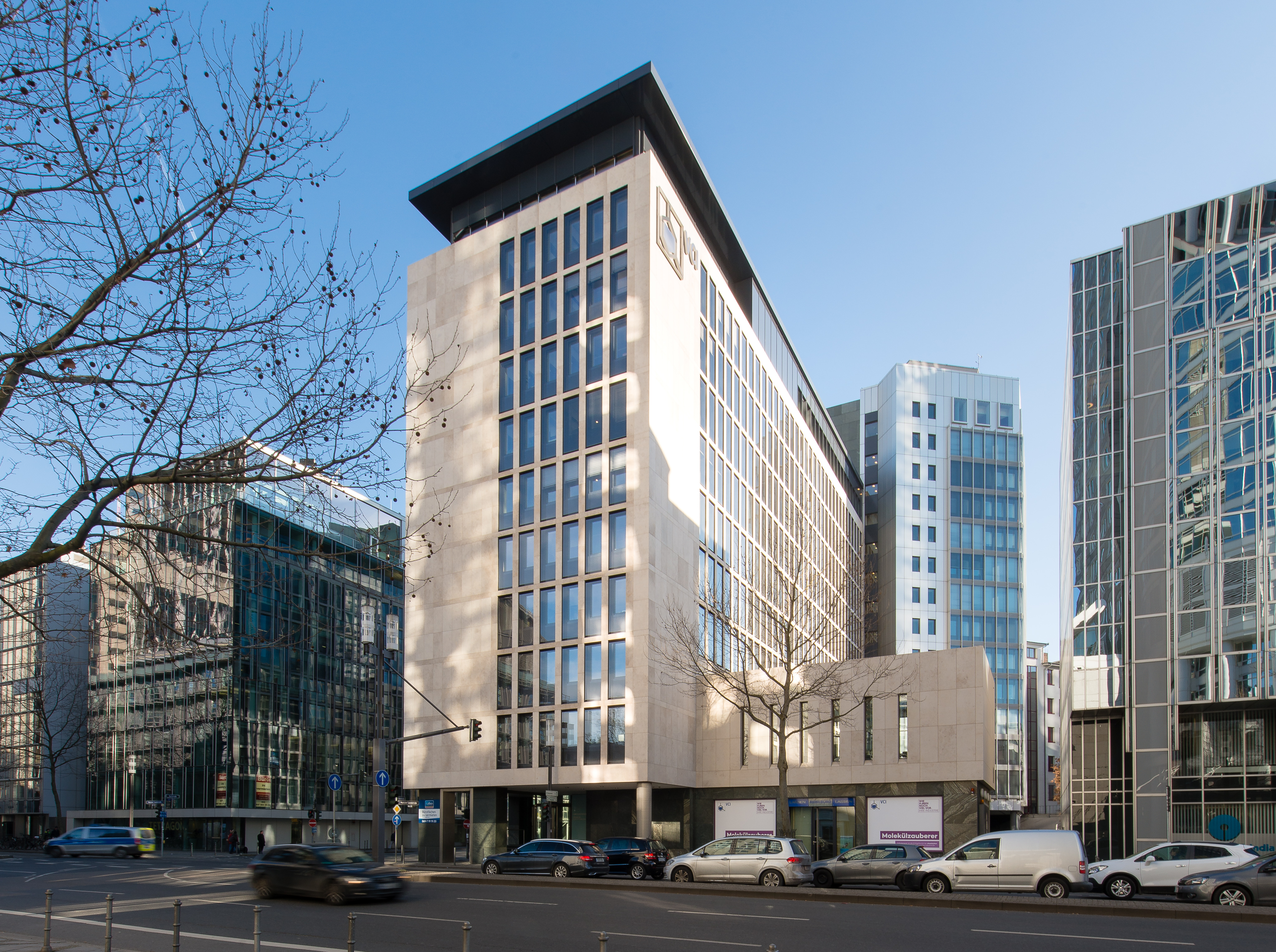 Frankfurt am Main, Mainzer Landstraße 55, Site of the German Chemical Industry Association (VCI)